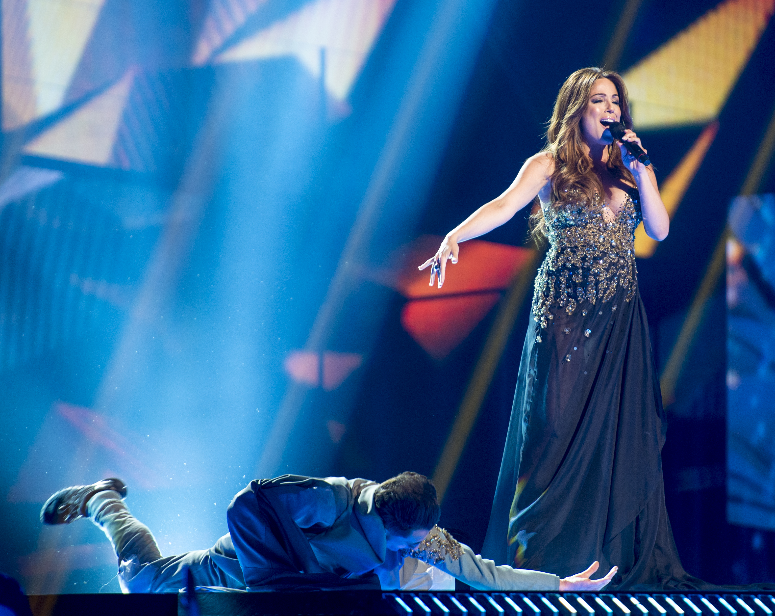 Ira Losco representing Malta with the song "Walk on Water" during a rehearsal before the first semi final of the Eurovision Song Contest 2016 in Stockholm. (Help translate this text)